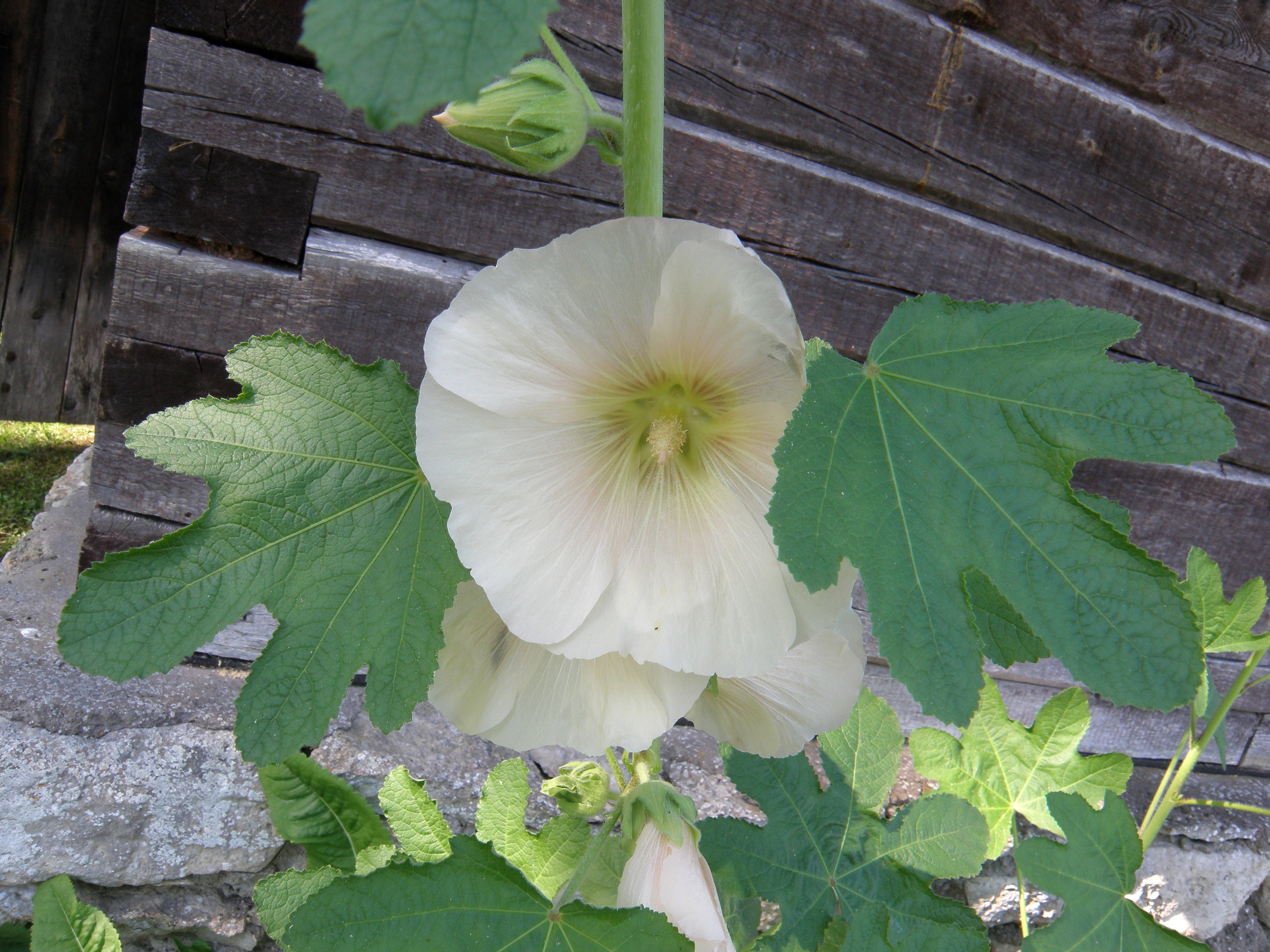 Alcea rosea